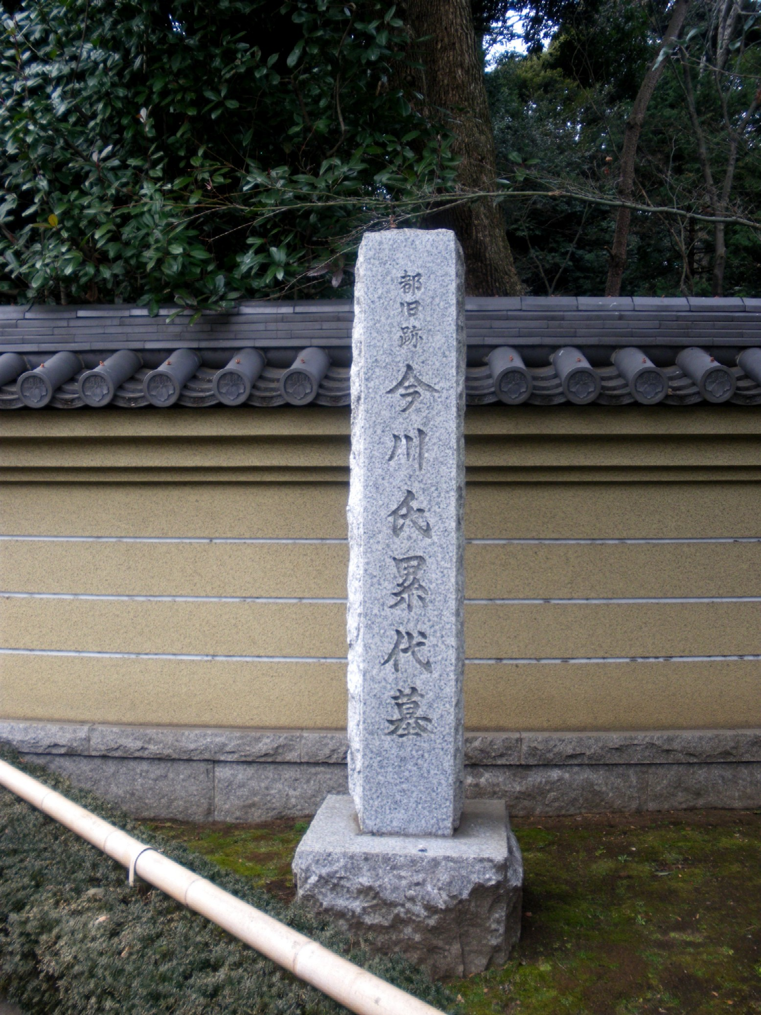 A photo of the monument of Imagawas grave at Kansenji temple,Imagawa,Suginami-ku,Tokyo,Japan.